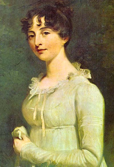 Portrait of Marcia Fox, by Sir William Beechey (ca. 1810?)